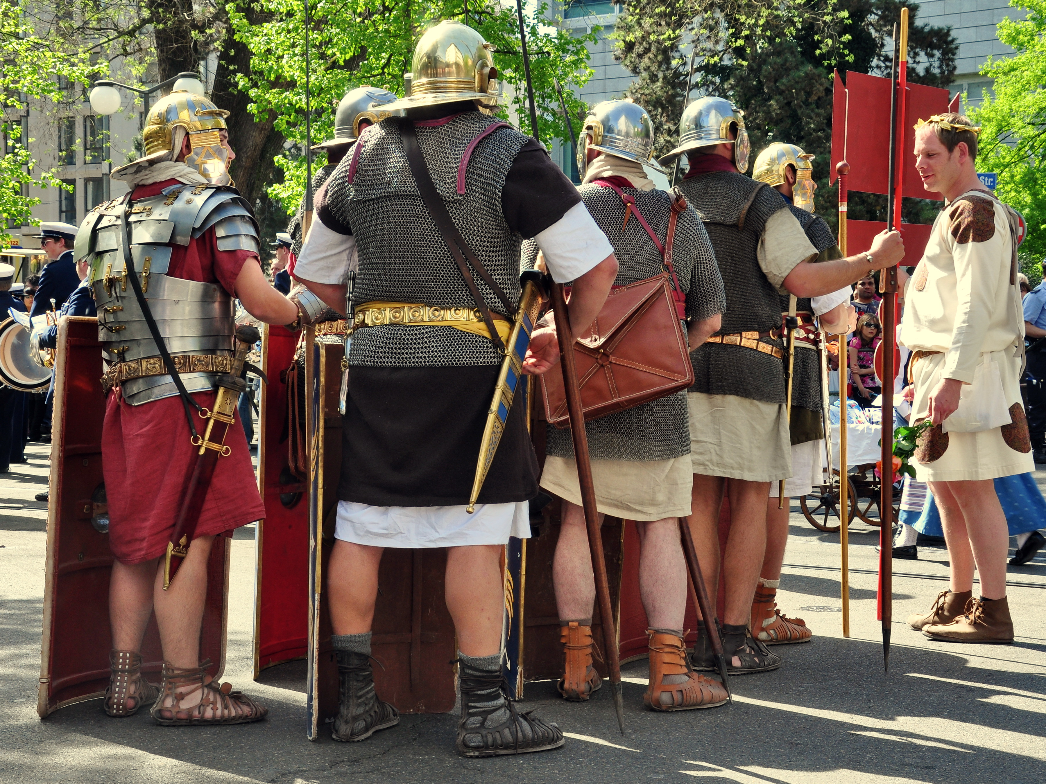 Preparations for the parade of the Zünfte (guilds) at Schützengasse in Zürich (Switzerland) on Sechseläuten-Montag, April 11, 2011 : Legio XXI Rapax, 'guests' on Lindenhof plaza in Zürich (Switzerland) on Friday-Monday before Sechseläuten in April 2011